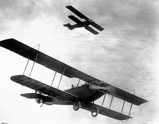 Two Curtiss JN-4s ("Jennies") in flight.